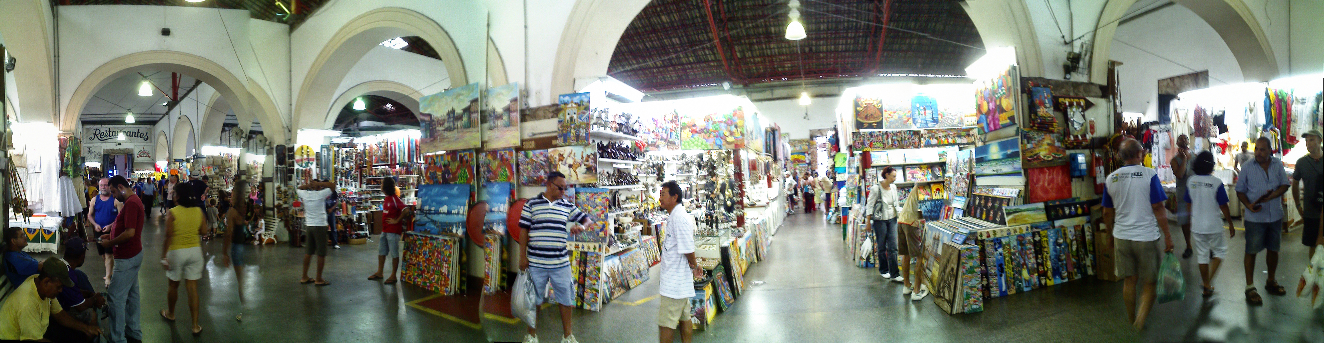 Mercado Modelo Photos taken with a Motorola A1200 mobile phone, and stitched with PS.